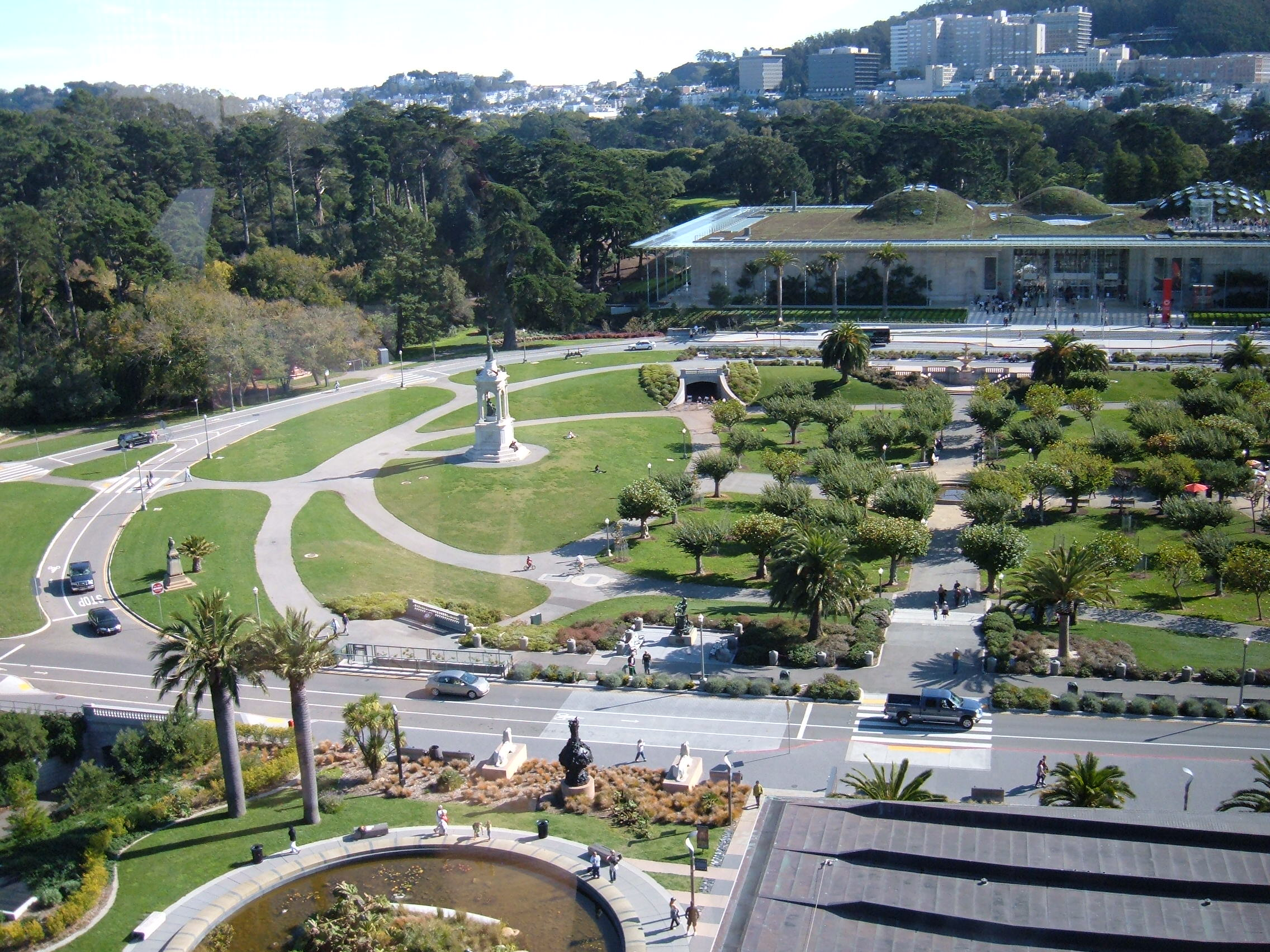 The Music Concourse as seen from the De Young Museum's Hamon Tower in Golden Gate Park in San Francisco, California.